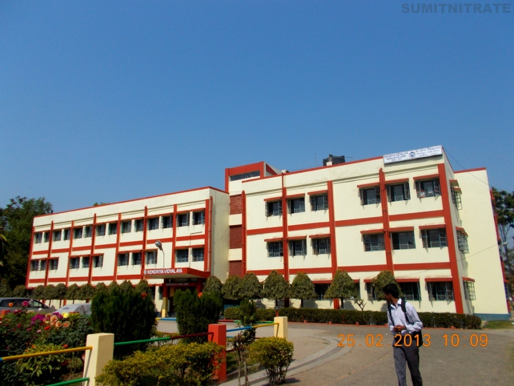 Kendriya Vidyalaya Barrackpore Army HQ